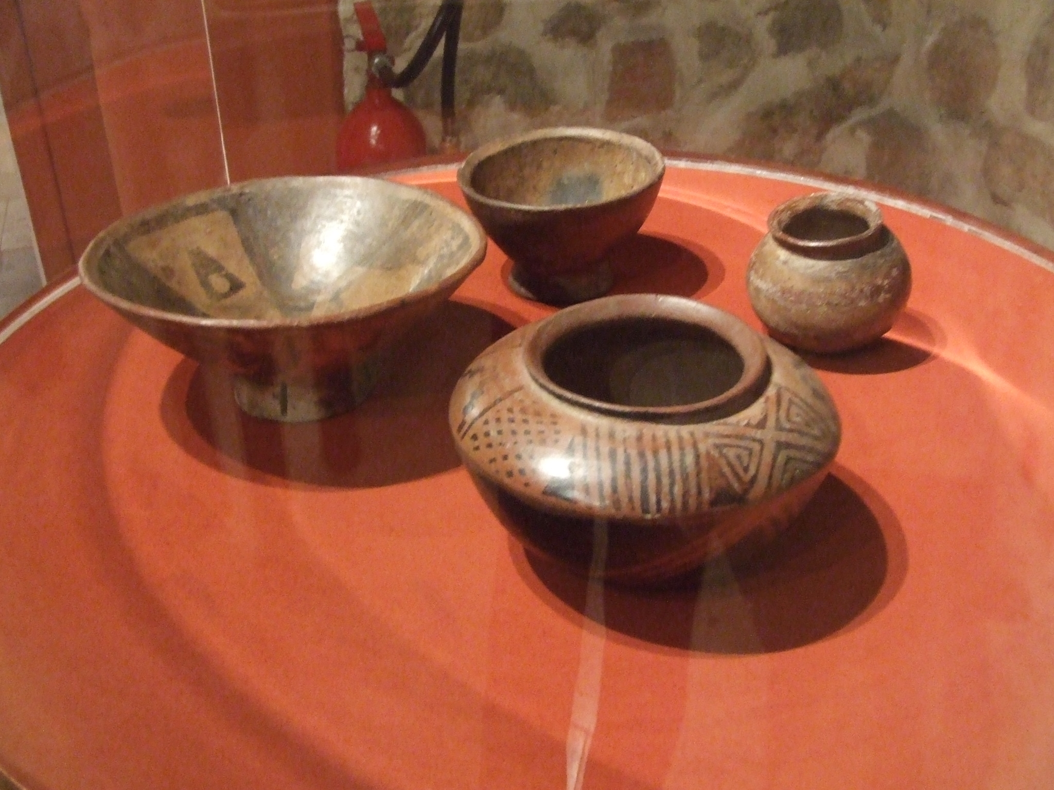 Ceramic bowls of Carchi culture (800-1500 CE). There are decorated with geometric and zoomorphic motifs made with negative painting techniques characteristic of this culture.